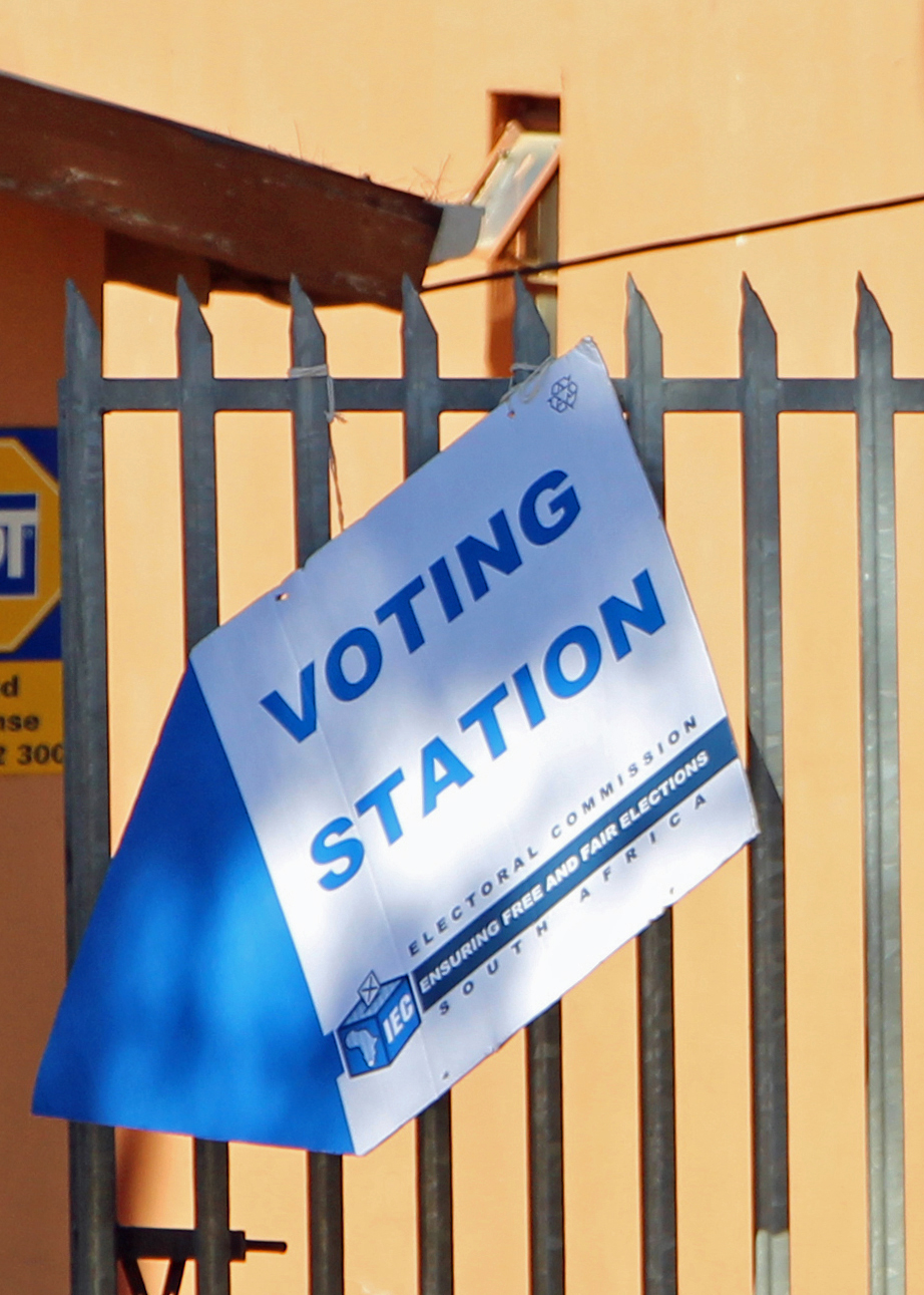 Final voter registration weekend, St Johns Anglican Church, Kayamandi